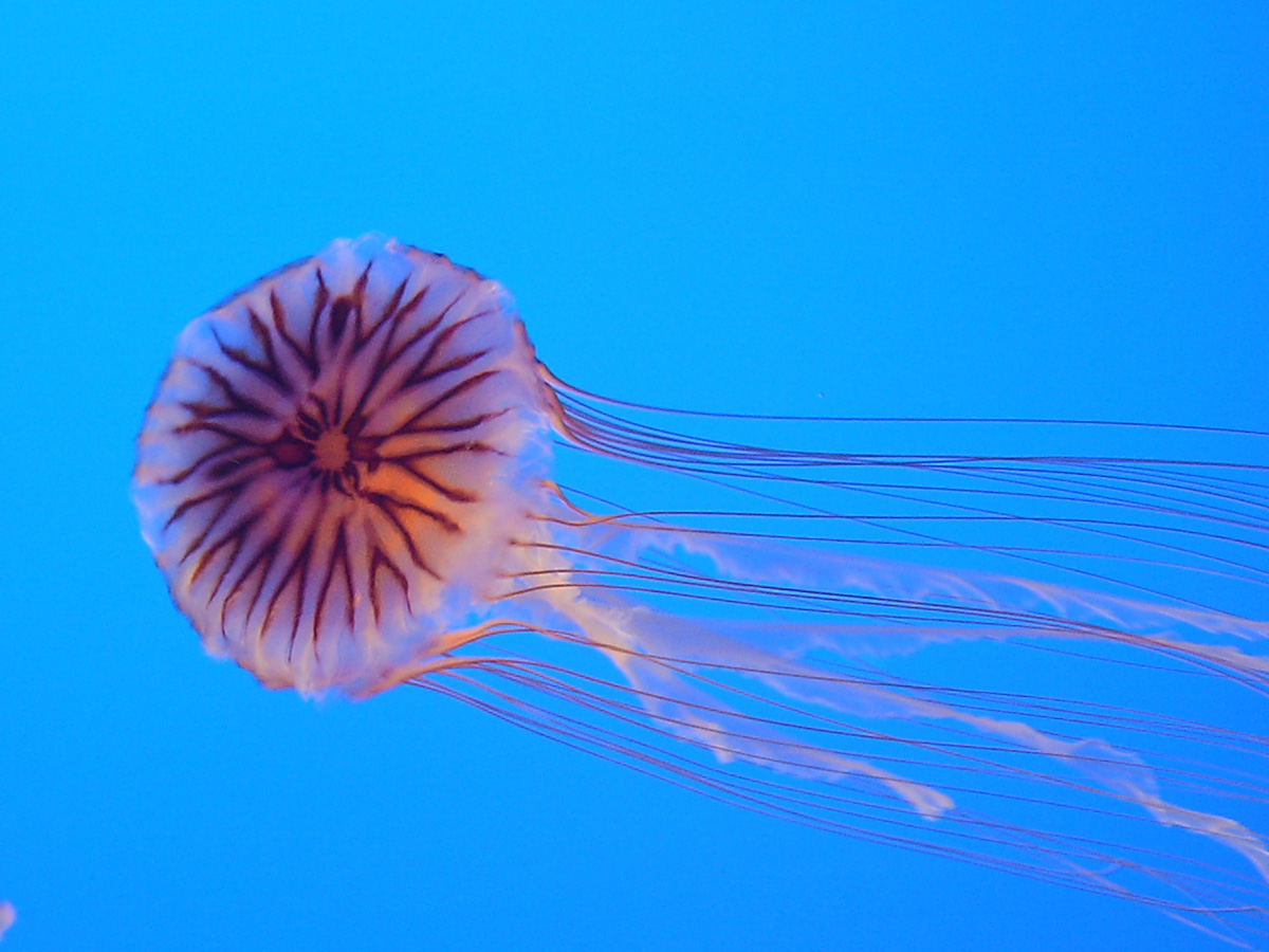 Brown jellyfish (Chrysaora hysoscella) at the Enoshima Aquarium, Japan.